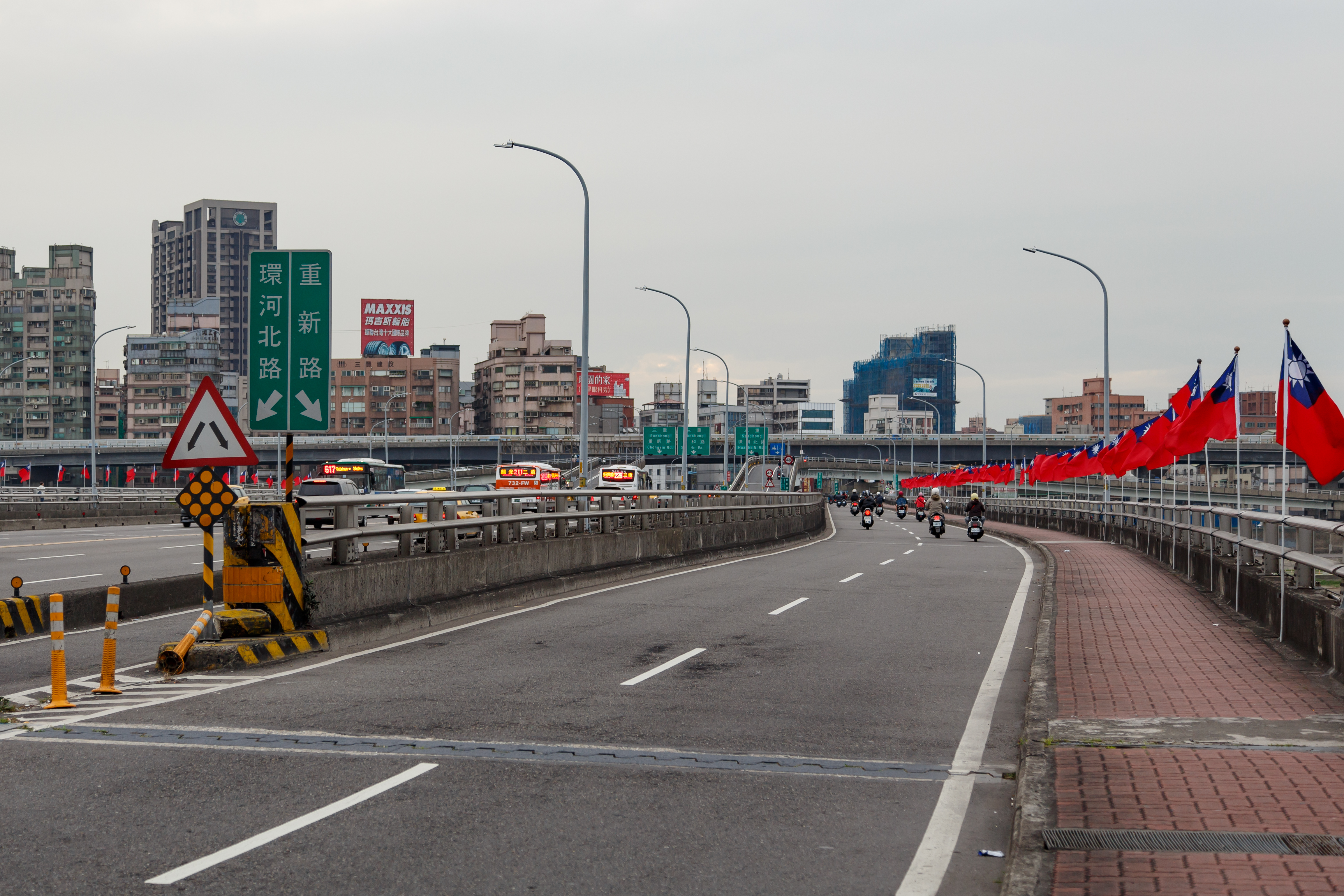 Taipei, Taiwan: Taipei Bridge, decorated with Taiwan National Flag